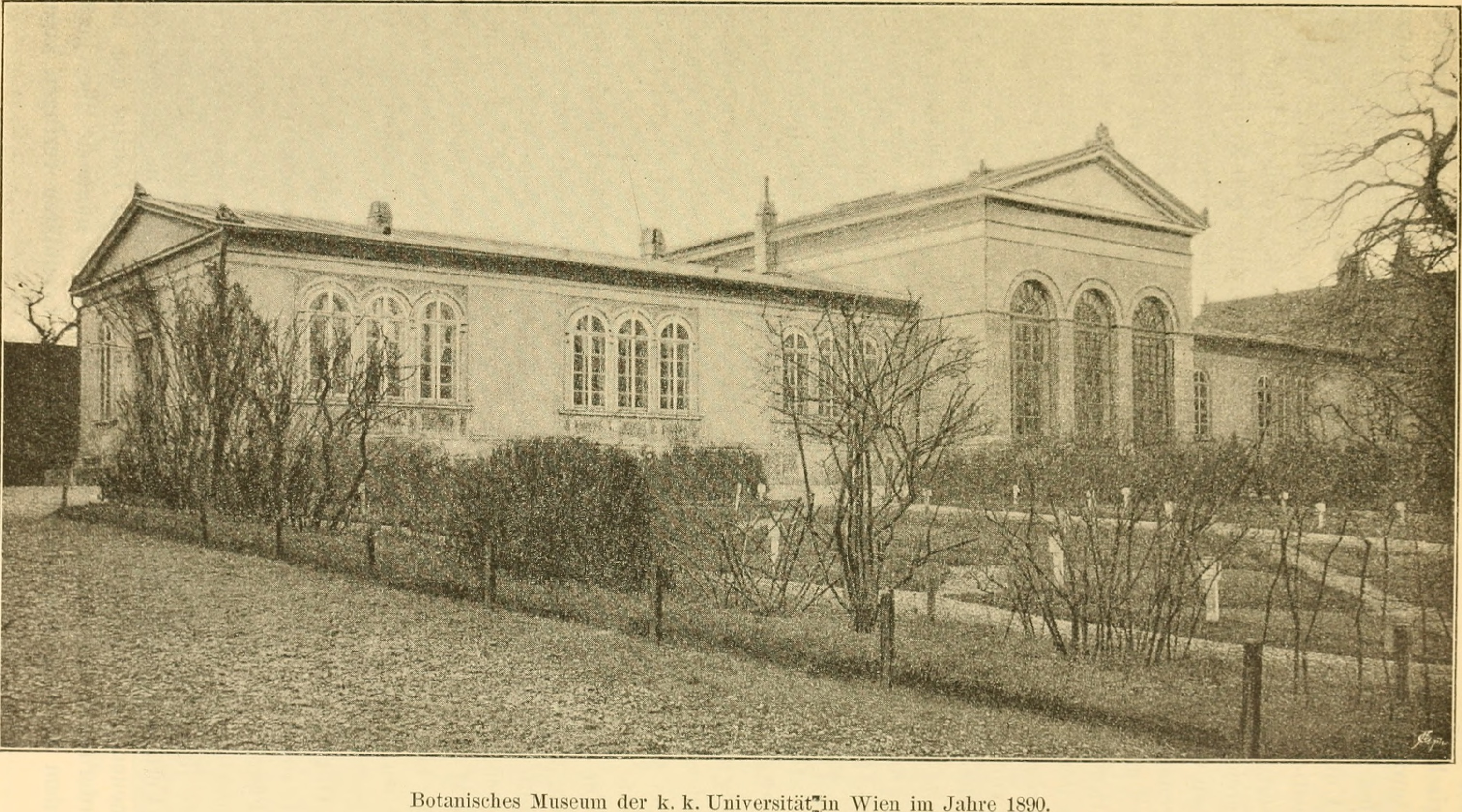 Title: Botanik und Zoologie in Österreich in den Jahren 1850 bis 1900. Festschrift Year: 1901 (1900s) Authors: Zoologisch-Botanische Gesellschaft in Wien; Handlirsch, Anton, 1865-1935; Wettstein, Richard, Ritter von Westersheim, 1863-1931; Dalla Torre, K. W. von (Karl Wilhelm), 1850-1928; Tippmann Collection (North Carolina State University). NCRS Subjects: Botany; Zoology; Science Publisher: Wien, A. Hölder Text Appearing Before Image: Geschichte der Institute und Cf)ri)orationen. 25 Text Appearing After Image: '